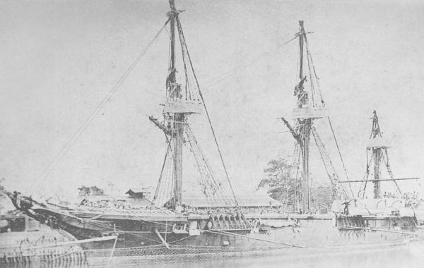 SETTSU, gunboat or training ship for guns of the Imperial Japanese Navy.